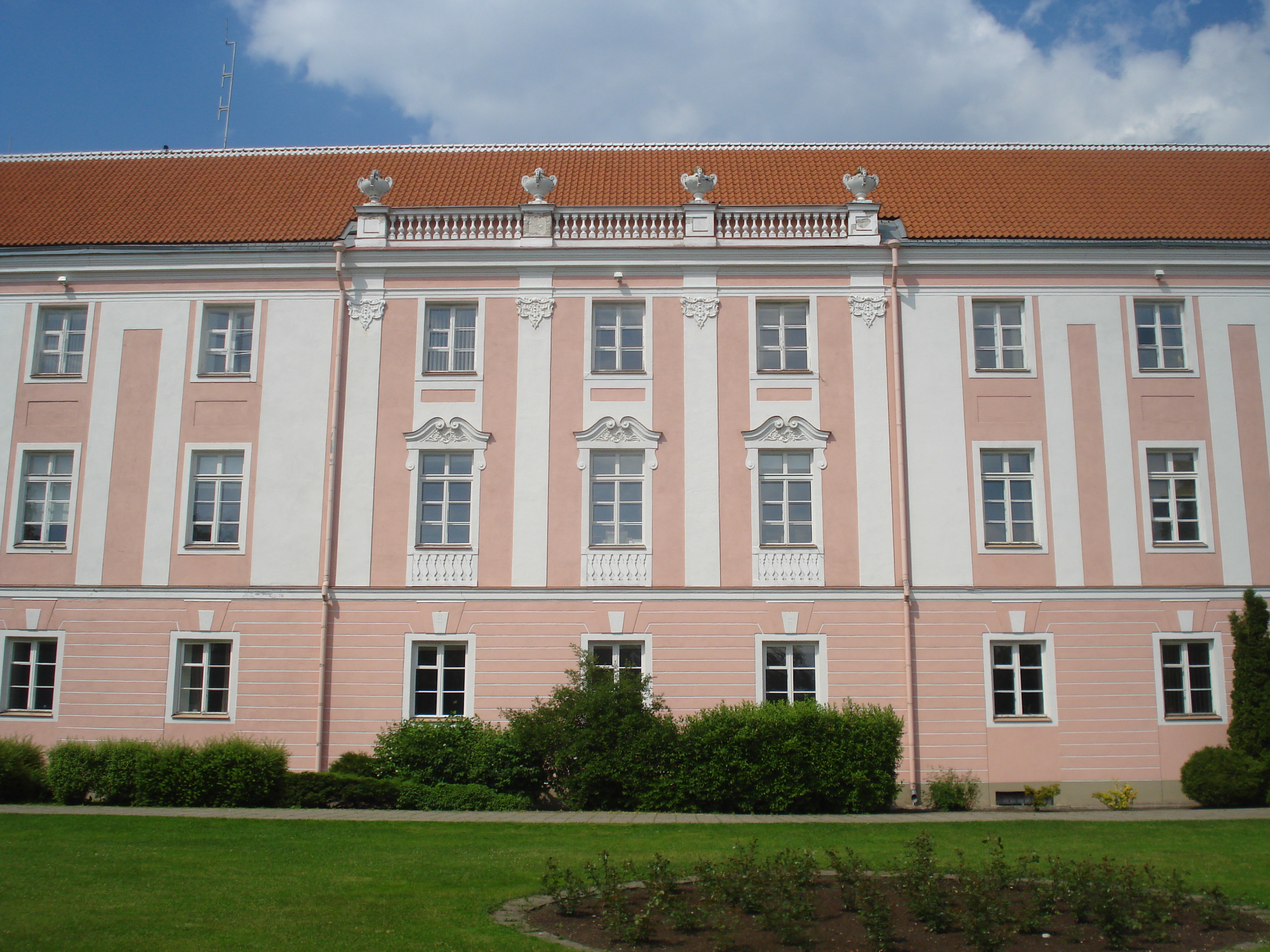 Estonian parliament building and garden in Tallinn